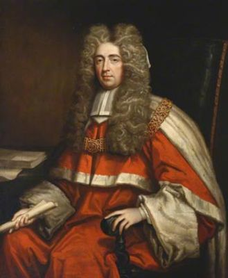 Portrait of Sir George Jeffreys, 1st Baron Jeffreys, Lord Chief Justice